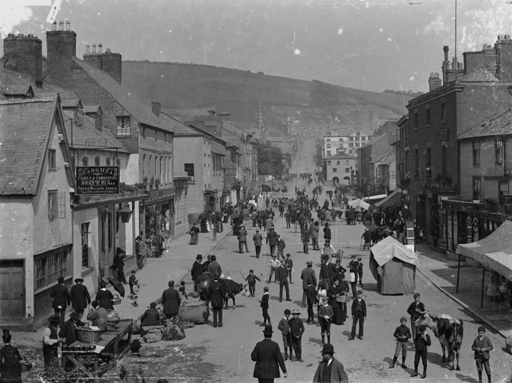 Abstract: Newtown